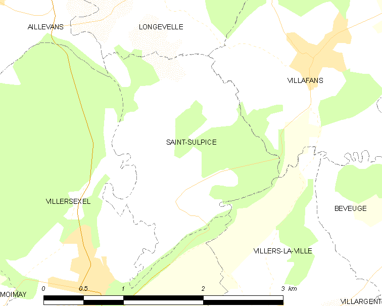 Map of French municipality